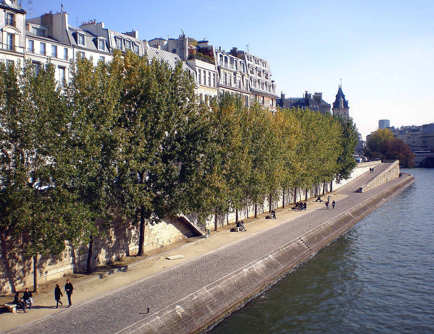 Quai des Orfèvres - Paris